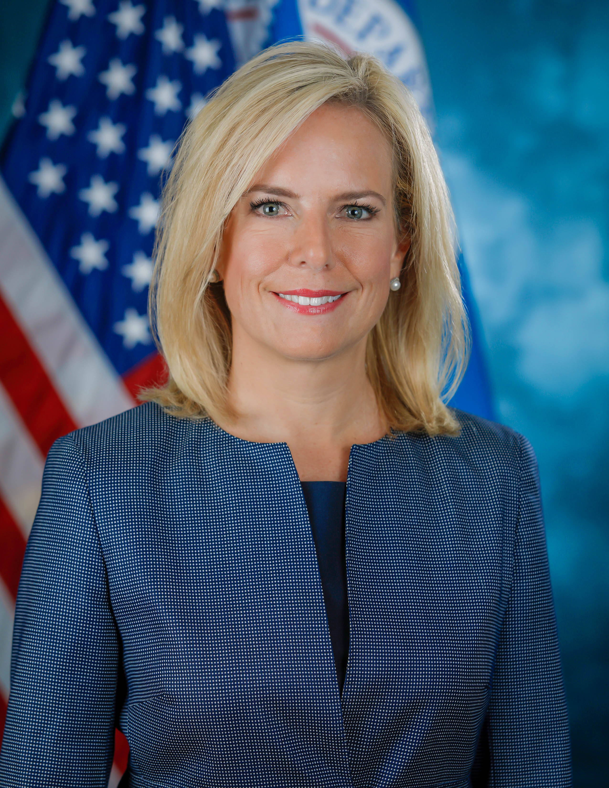 Kirstjen Nielsen, 6th United States Secretary of Homeland Security, official photo